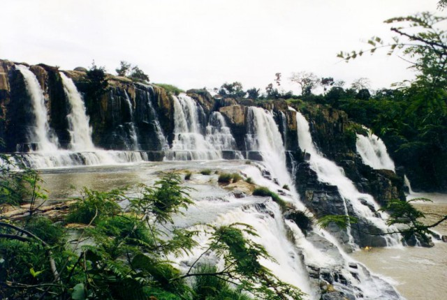 Lien Khuong Waterfall or Lien Khang Waterfall.